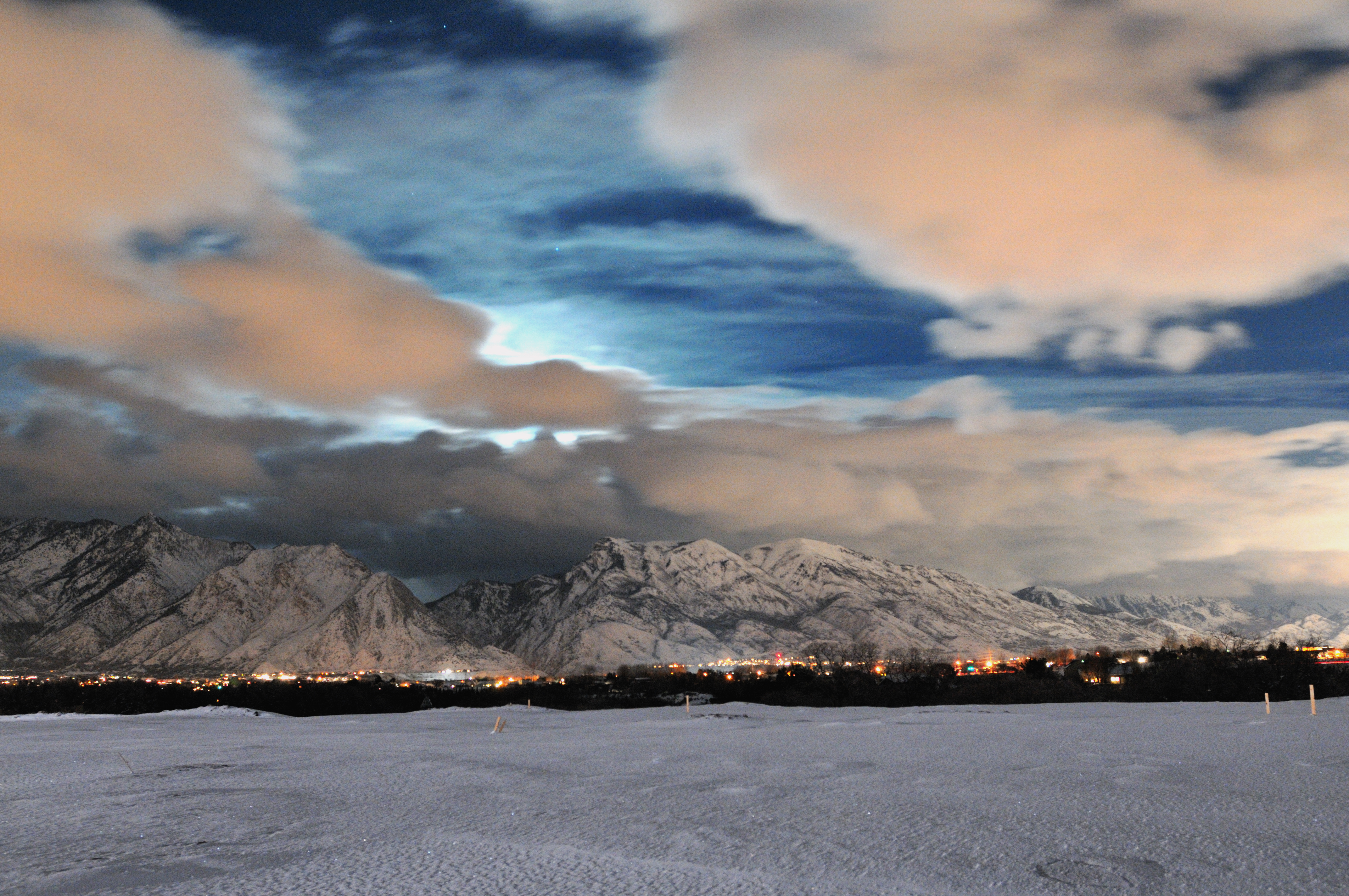 Highland, Utah at night, 2008. 30-sec exposure